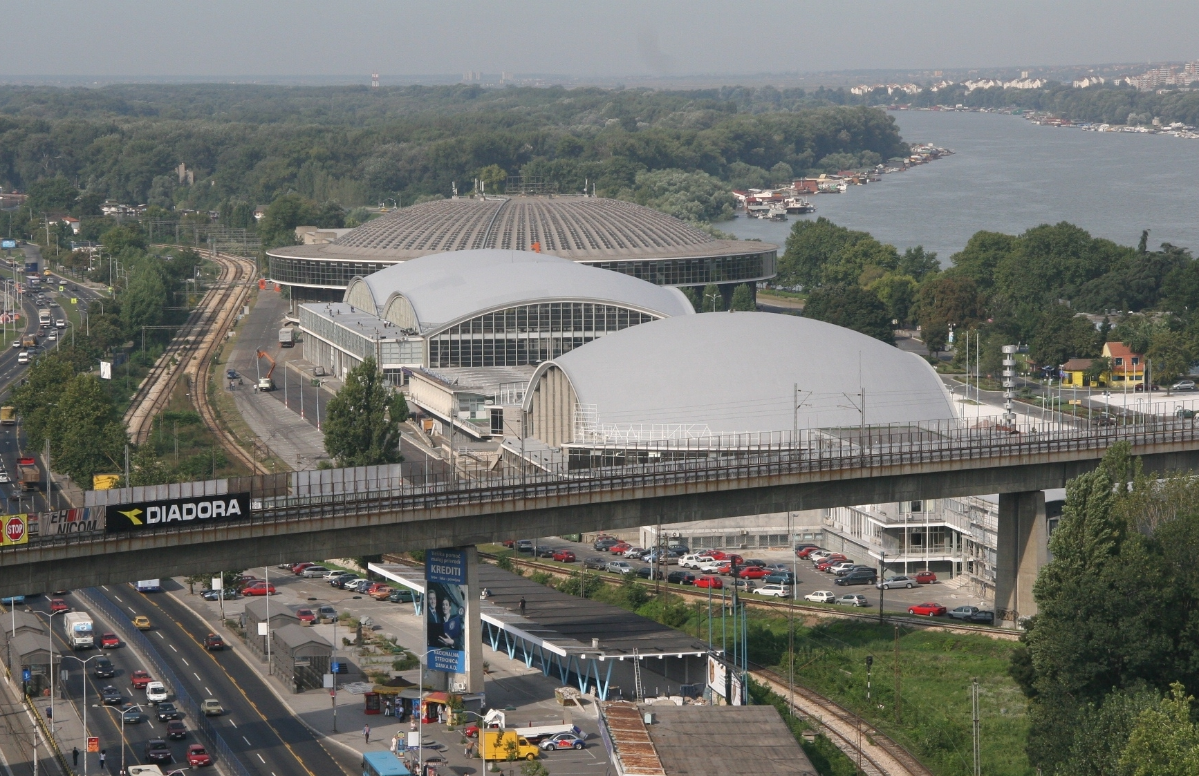 Fair halls